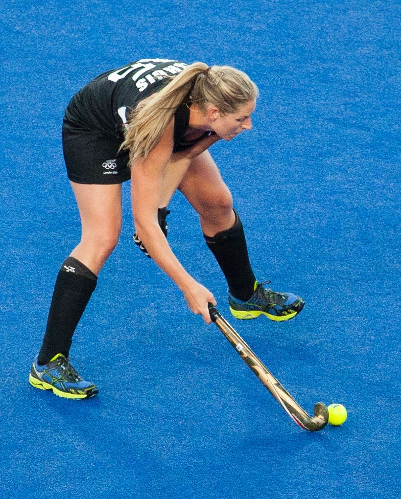 Clarissa Eshuis at the 2012 London Olympics